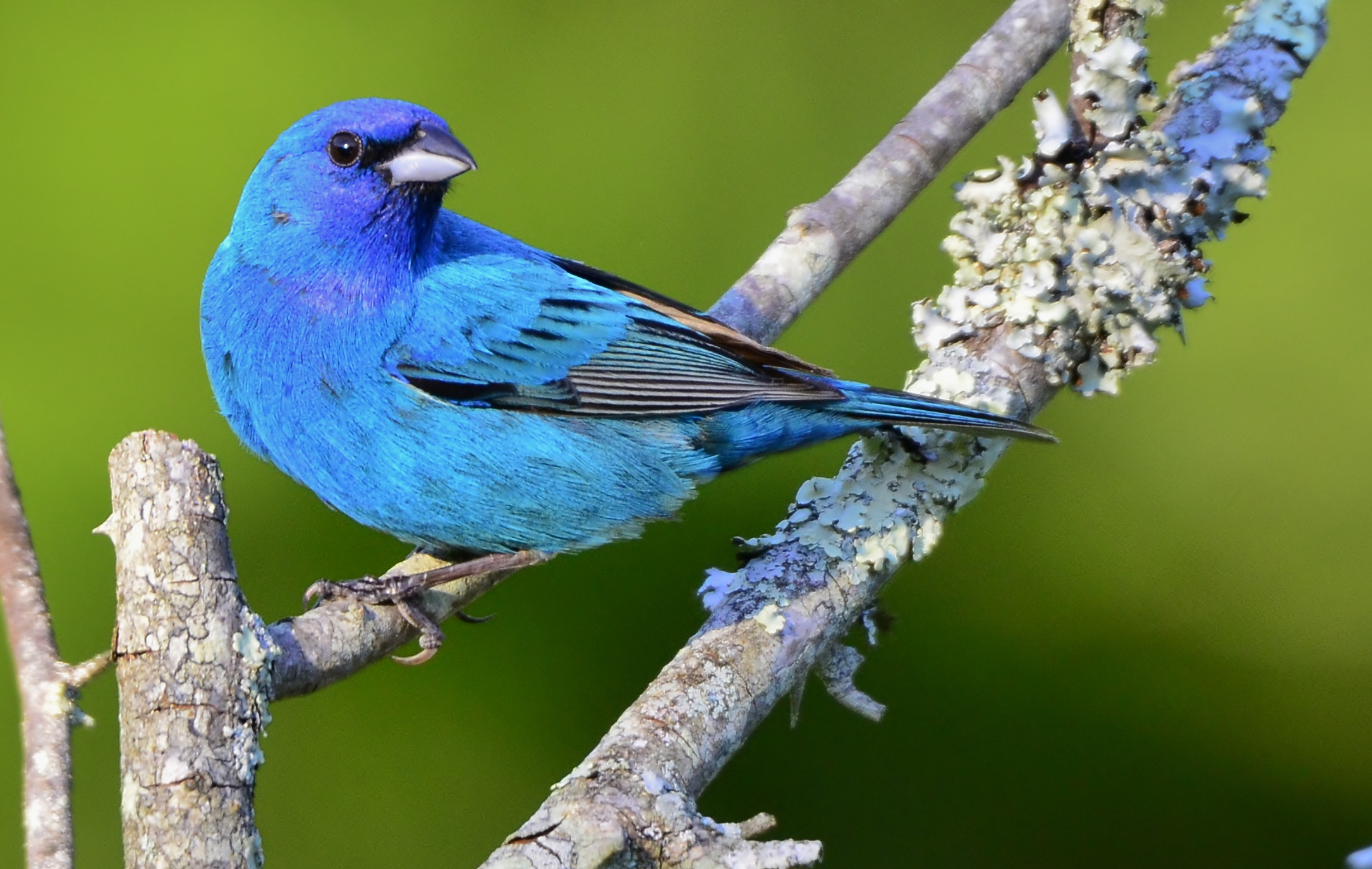 Julian Price Memorial Park, Blue Ridge Parkway, North Carolina, USA